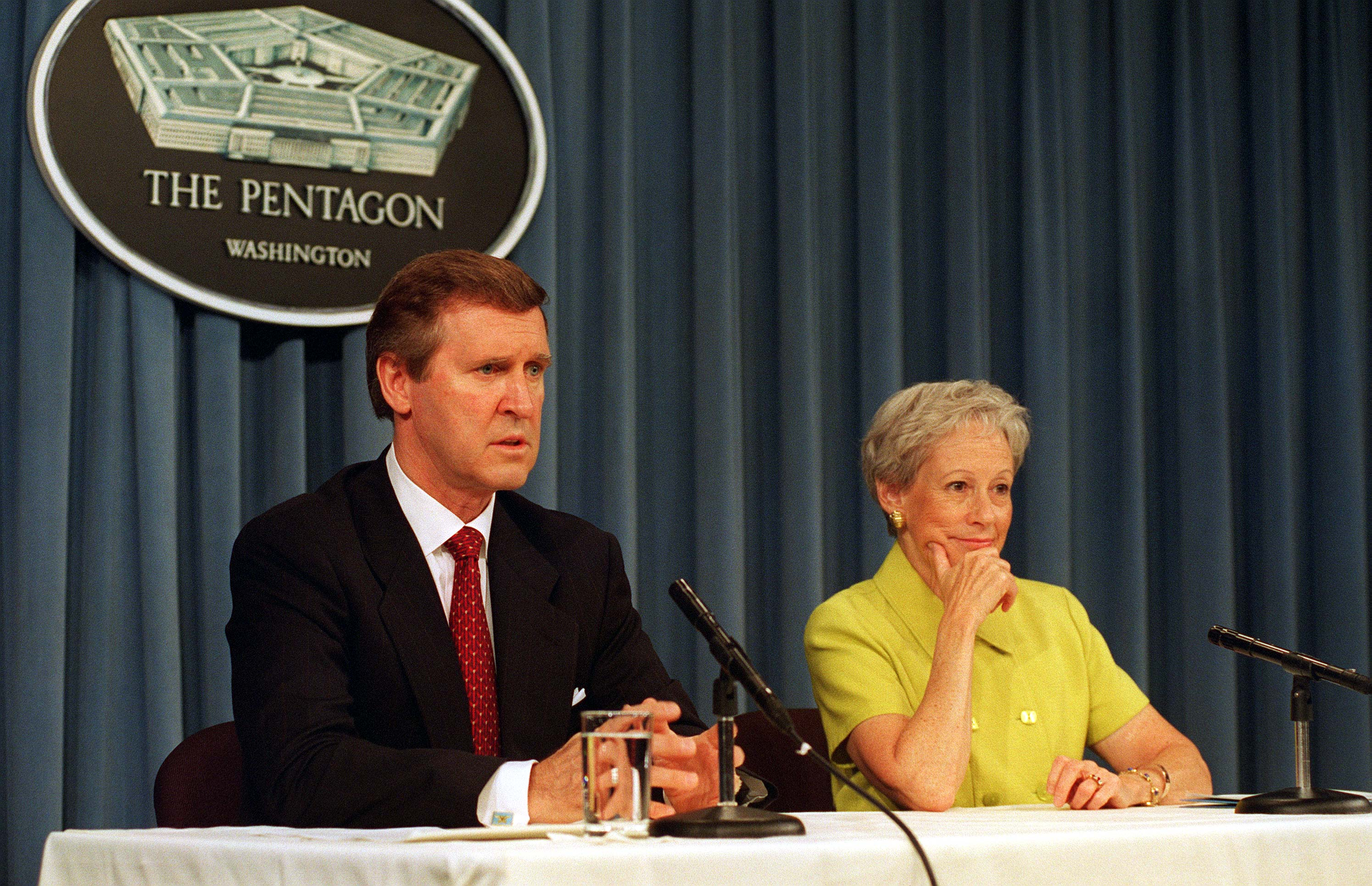 Secretary of Defense William S. Cohen (left) responds to a reporter's question during a joint press briefing on June 27, 1997, with former Senator Nancy Kassebaum Baker (right), task force chair on the Advisory Committee on Gender Integrated Training and related issues in military services.